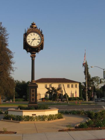 Rotary Centennial Clock in San Marino, California